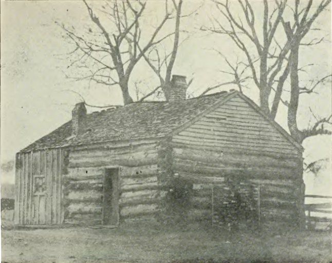 The first log cabin built at Fort Des Moines, seen in 1903 photo. Illustration in book "History of Iowa From the Earliest Times to the Beginning of the Twentieth Century."